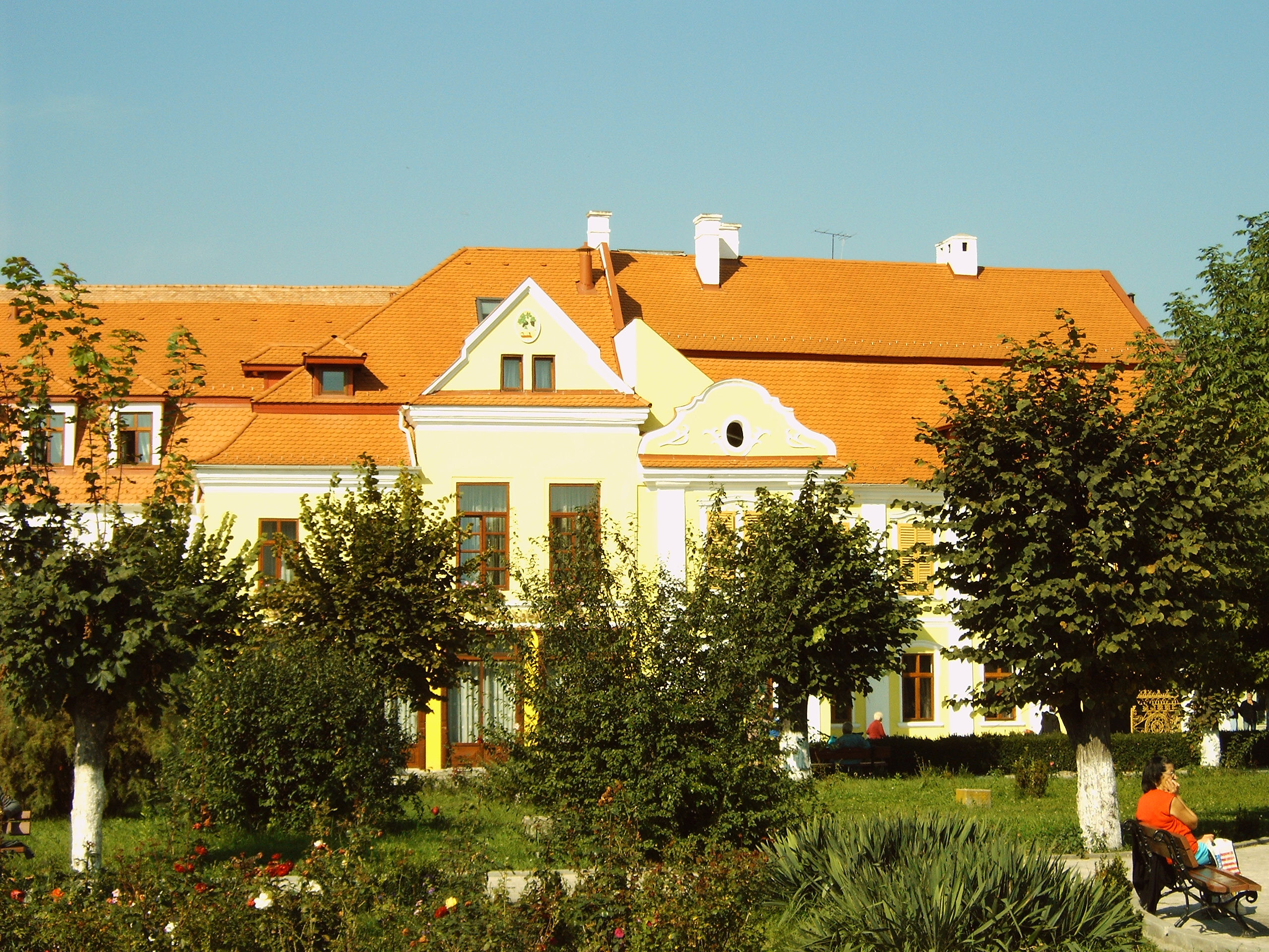 Hotel Traube, Mediaş, Transylvania, Romania